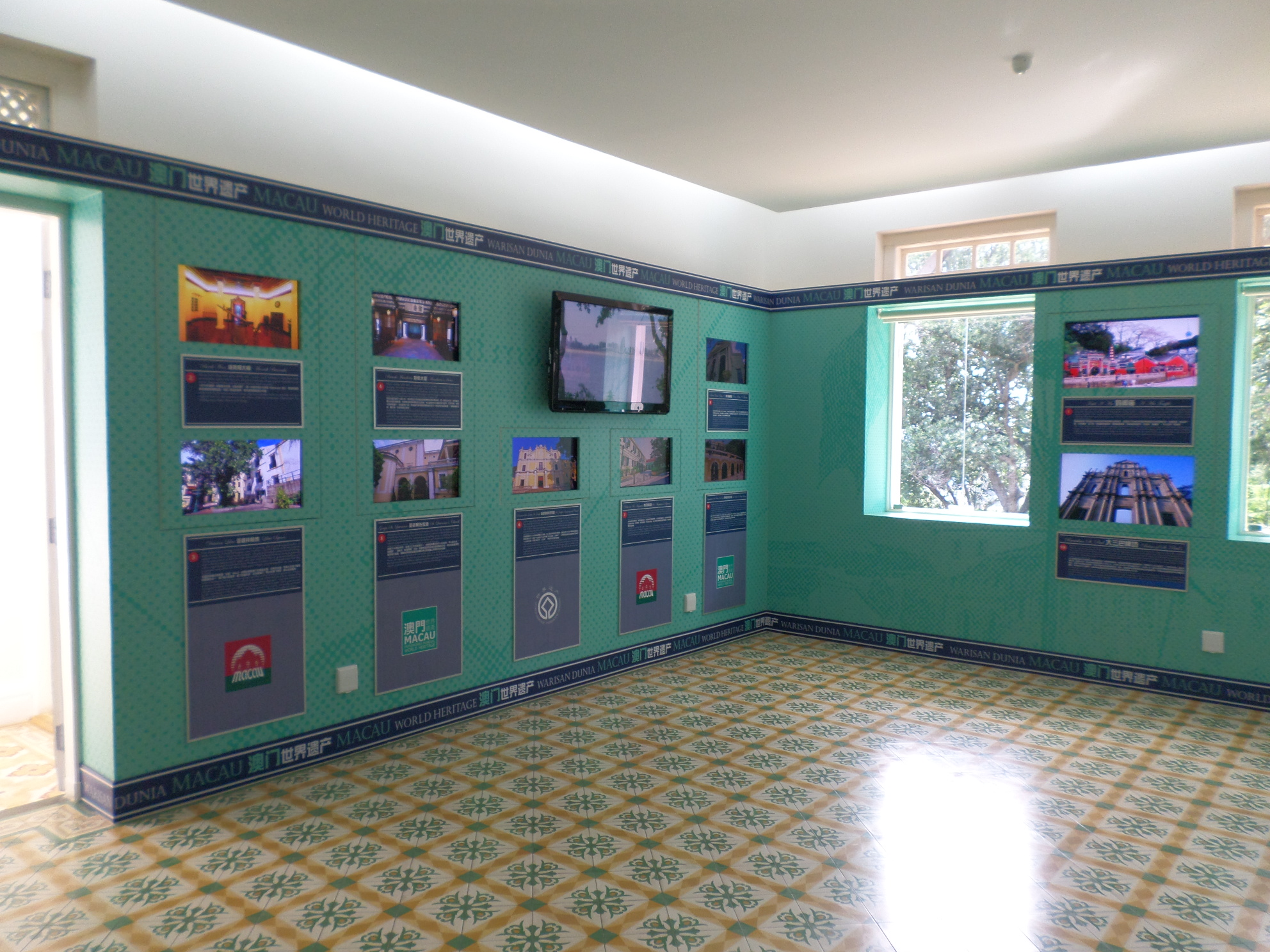 Macau Gallery, Bukit Peringgit, Melaka, MalaysiaBahasa Melayu: Galeri Macau, Bukit Peringgit, Melaka, Malaysia